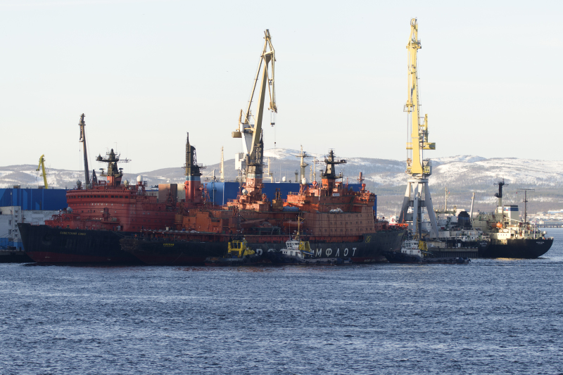 Sovetskiy Soyuz (IMO 8838582) and Rossiya (IMO 8424240), the oldest Arktika-class nuclear-powered icebreakers still in service, moored side-by-side at the Atomflot base; tugboats Pak, Kildin, Kanin pushing the Rossiya; nuclear fuel carrier Imandra moored alongside the cargo ship Lotta